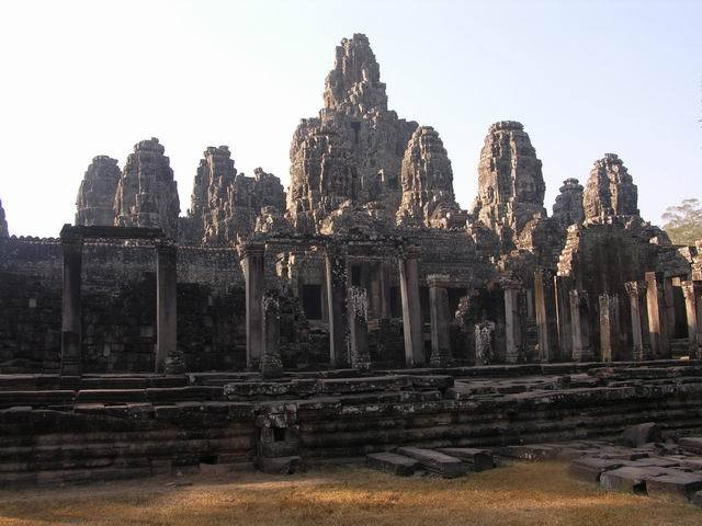 Bayon (in Angkor)